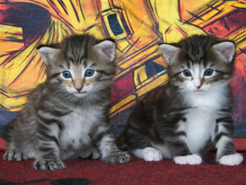 Two tabbies norwegian forest cat kittens